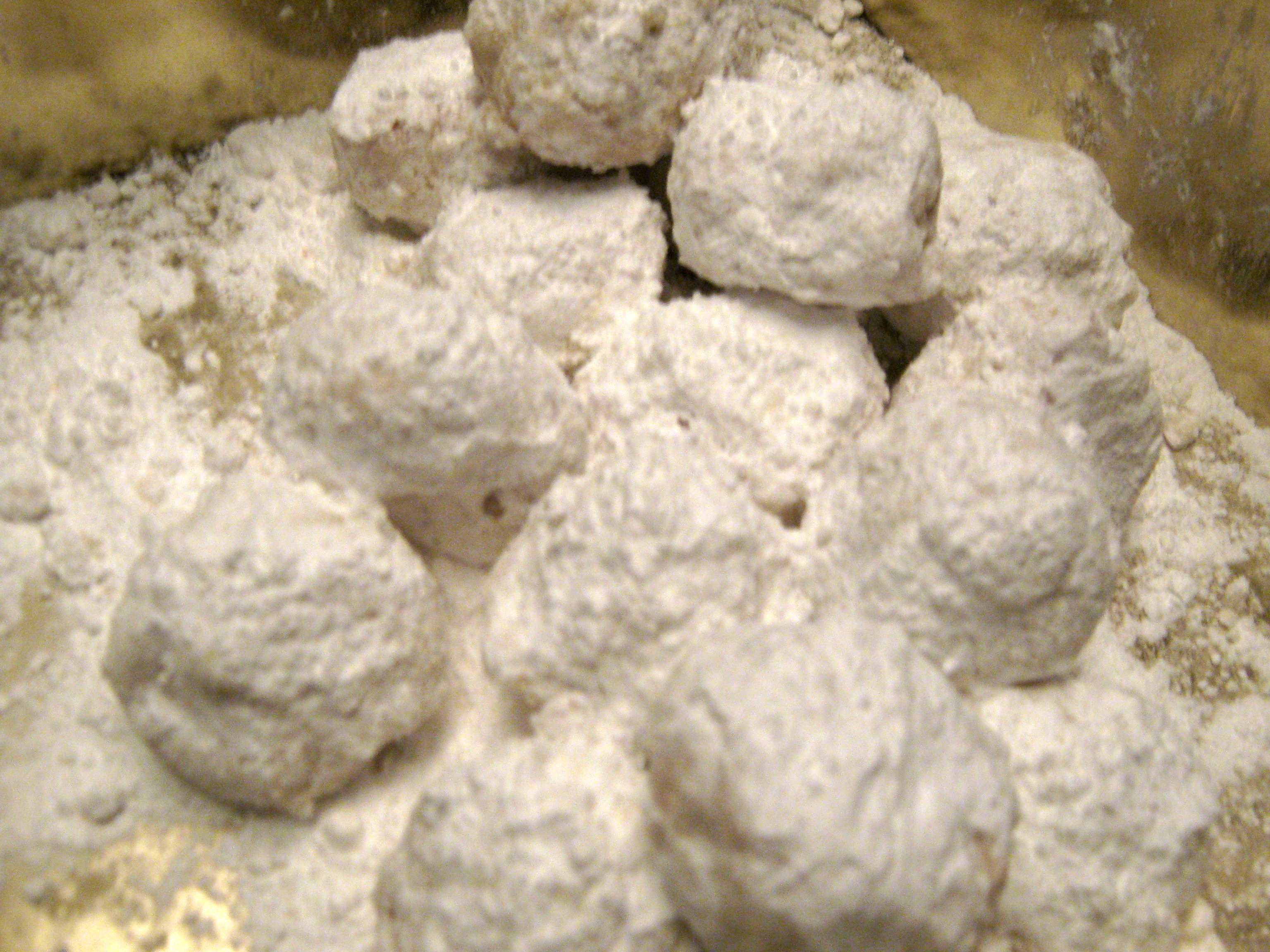 Russian tea cakes.